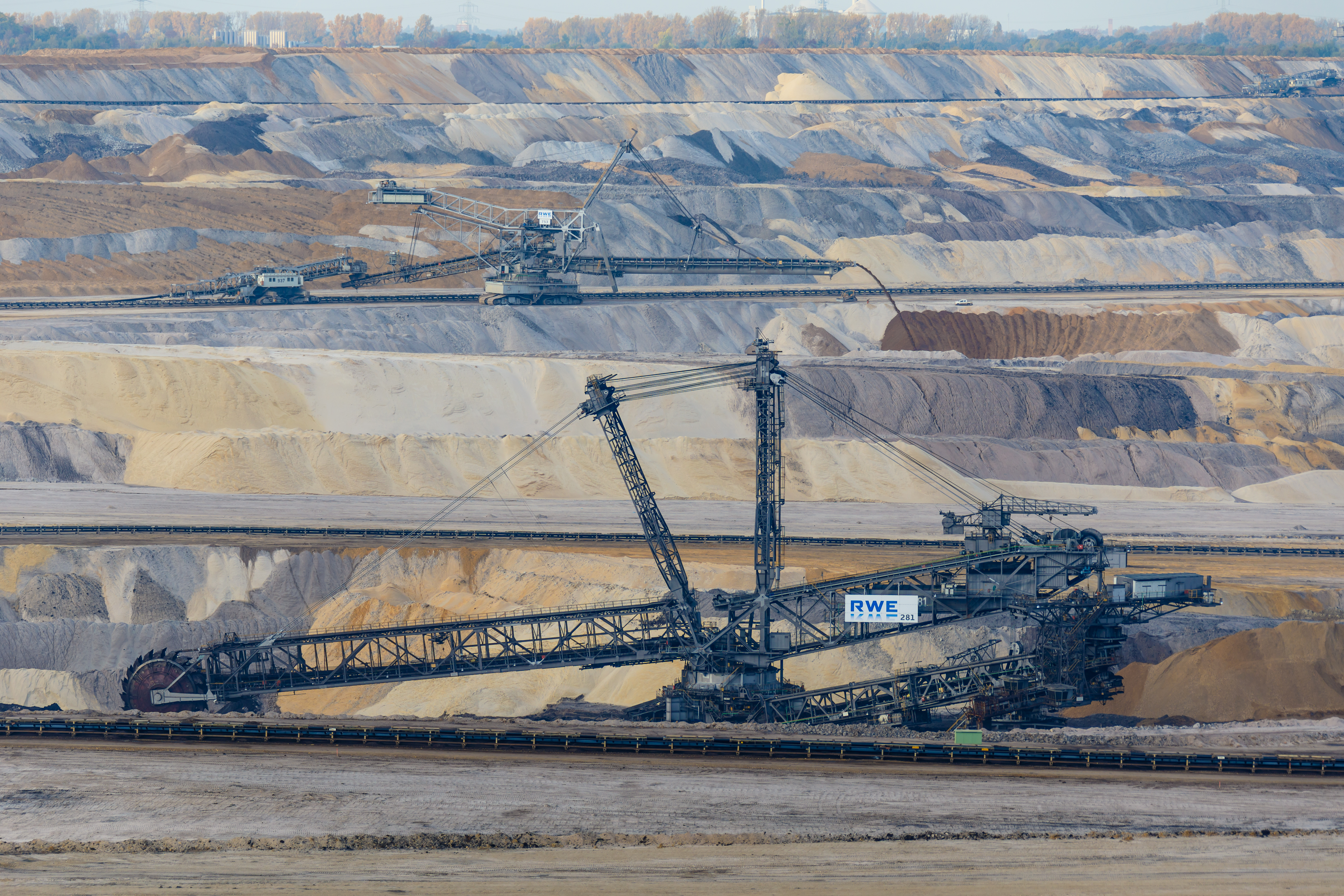 Inden, Germany: Bucket-wheel excavators at "Tagebau Inden", an open brown coal pit in North Rhine-Westphalia